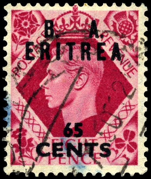 United Kingdom Eritrea 65c overprint stamp of 1950